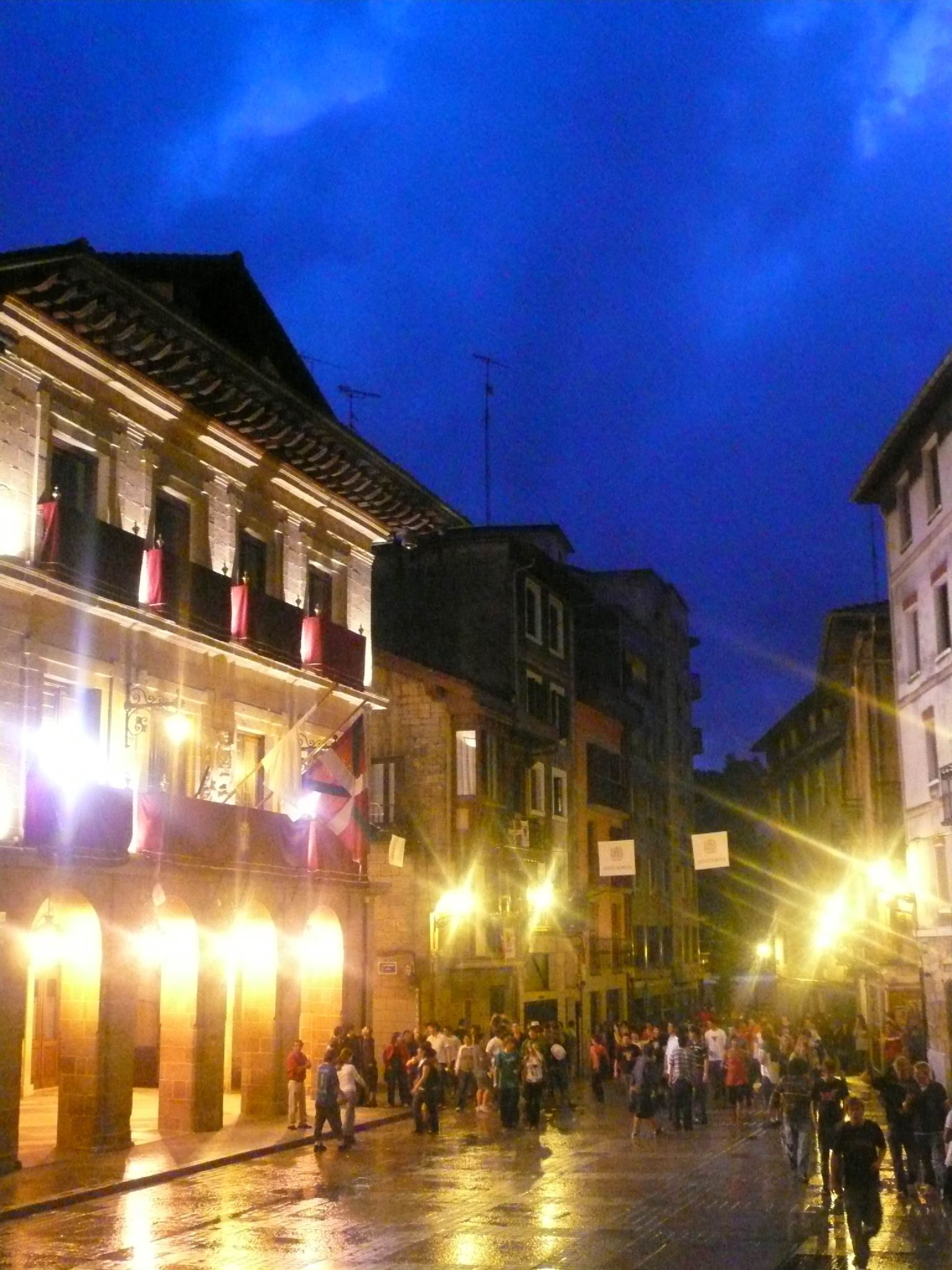 Orereta townhall.